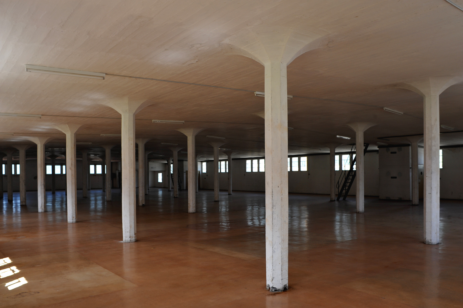 «Sackmagazin» (warehouse) of the «Eidgenössisches Getreidelager» (Grain storage of the Swiss Confederation) in Altdorf by Robert Maillart, built 1912; Uri, Switzerland. Mushroom slab on the third floor.